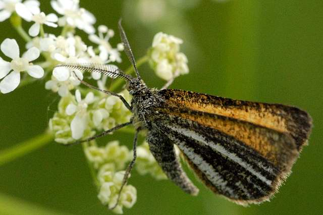 Isturgia limbaria from Commanster, Belgian High Ardennes .